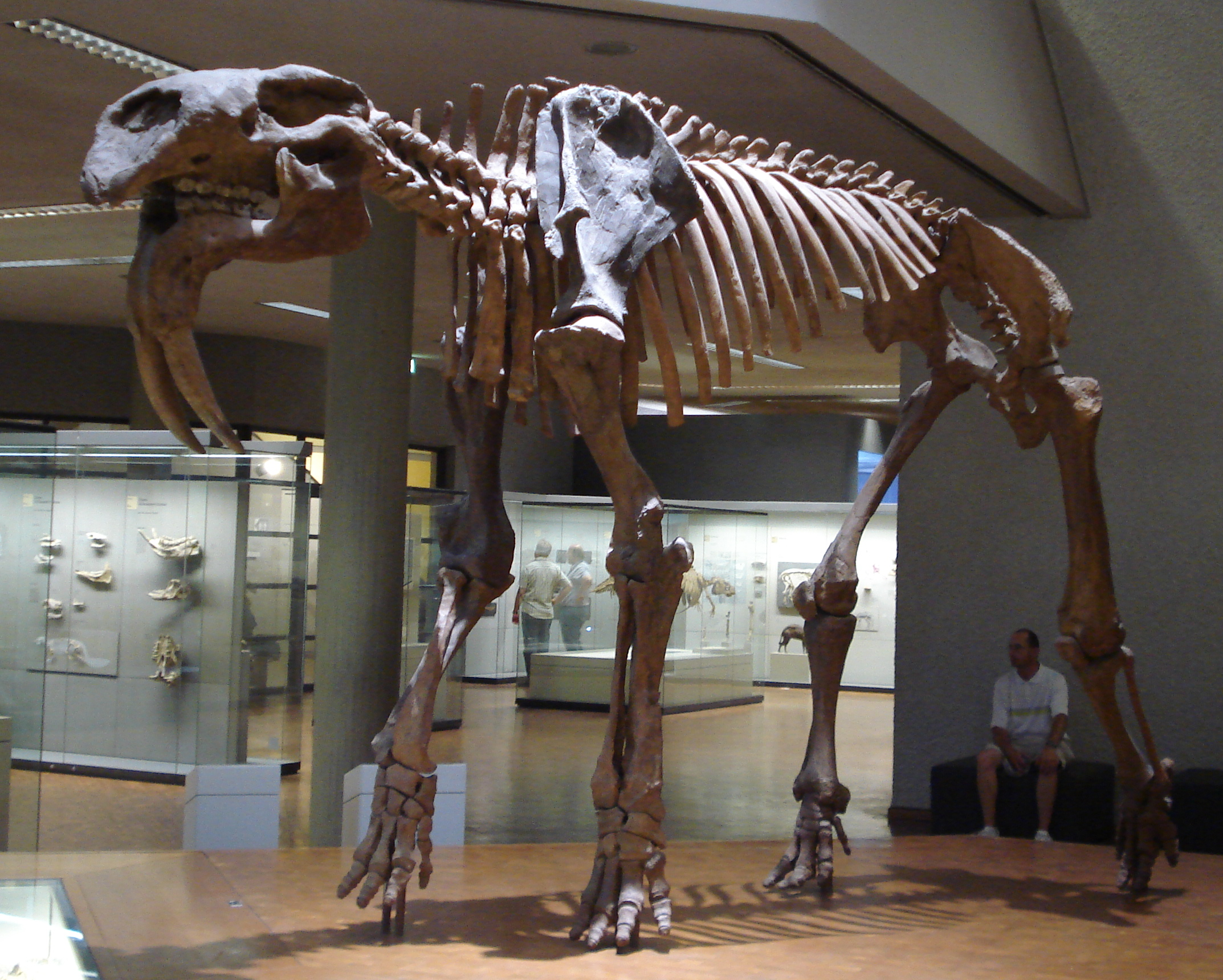 fossil of prodeinotherium